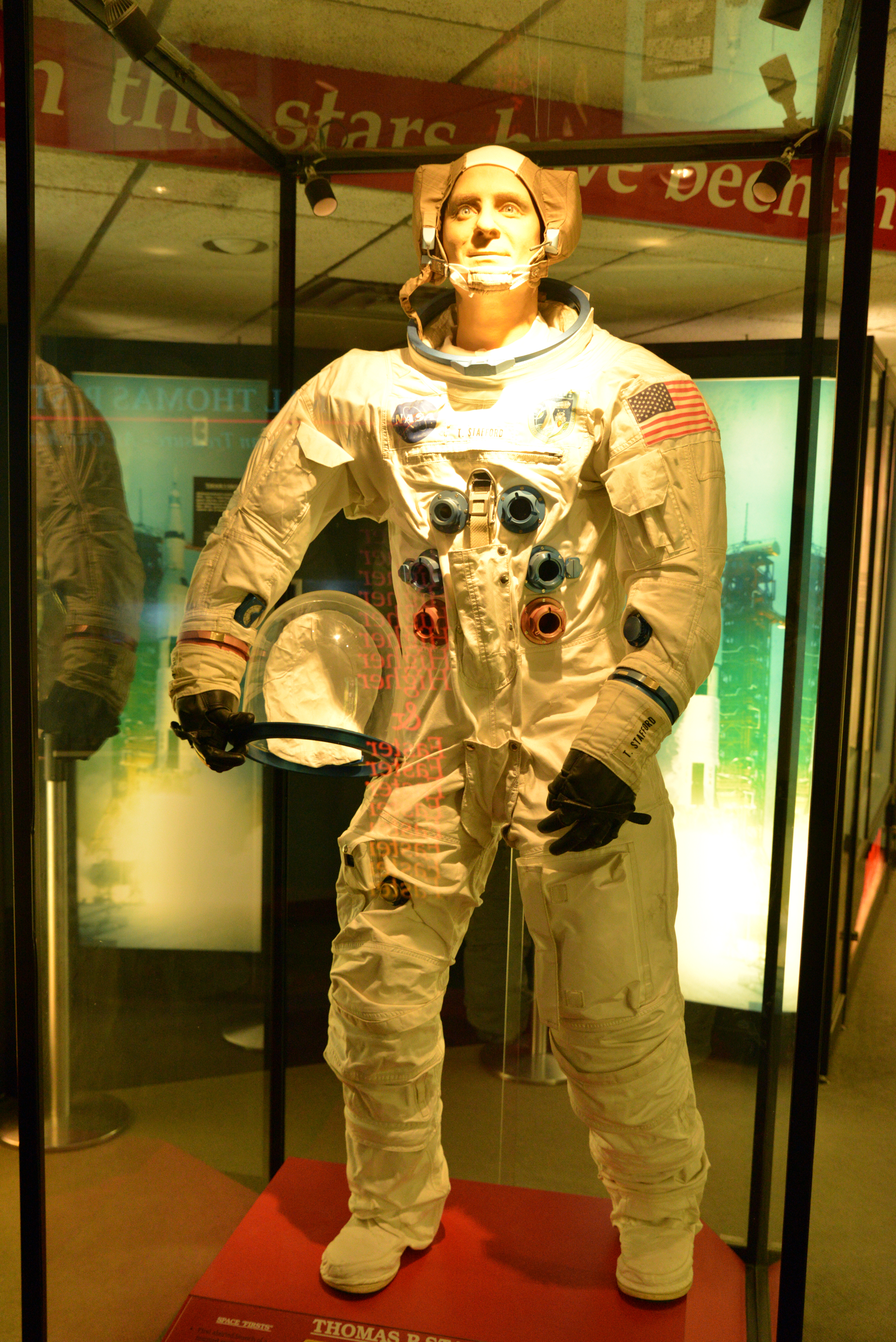 The Apollo space suit worn by Thomas P. Stafford as commander of the Apollo 10 lunar mission from May 18 to May 26, 1969. (The headgear is a communications hat known as a "Snoopy cap", with dual headphones and microphones for redundancy.) On display at the Stafford Air & Space Museum, Weatherford, Oklahoma, U.S. The museum was named for Stafford, a native of Weatherford.